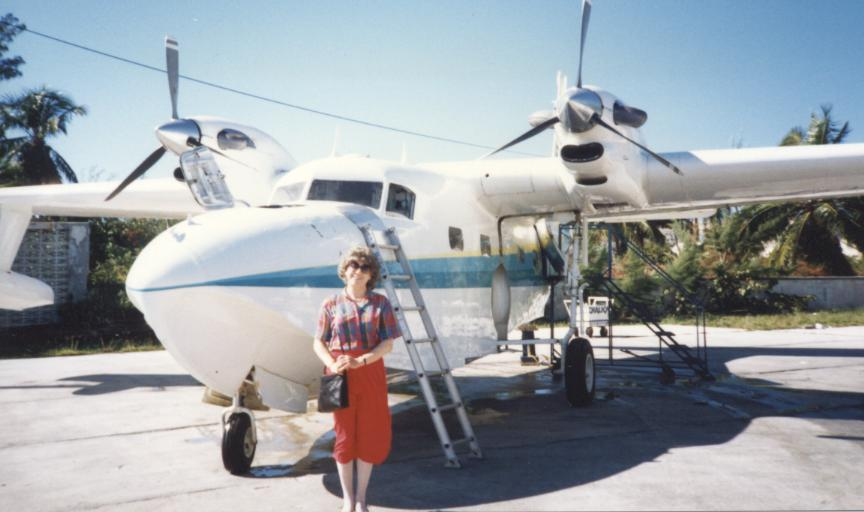 Chalk's International Turbo Mallard at Bimini Seaplane base, Bahamas, registration number N2969. On 19 December 2005, this aircraft crashed into the Atlantic Ocean off the coast of Miami Beach, Florida.